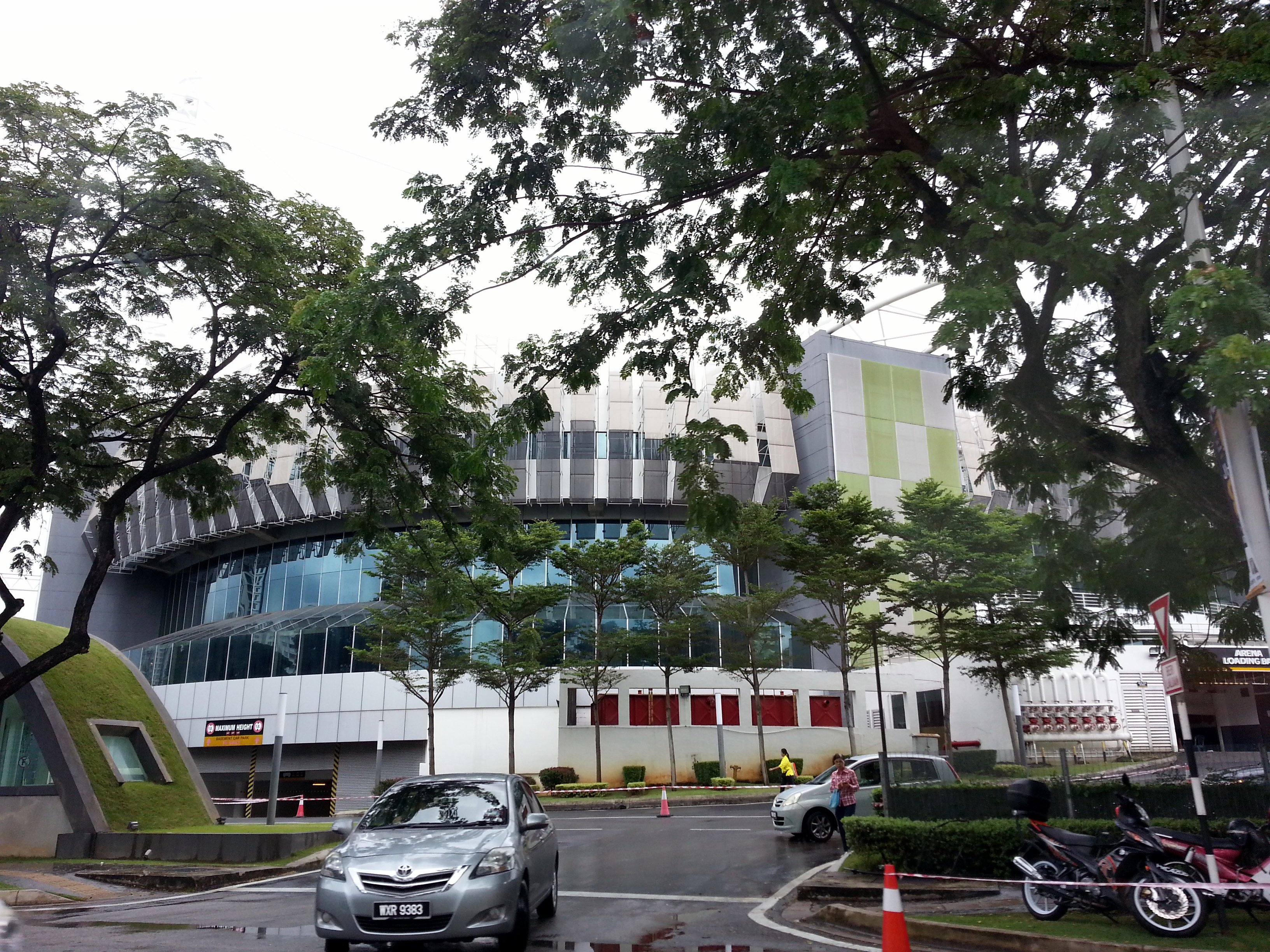 SPICE Arena in Relau, Penang